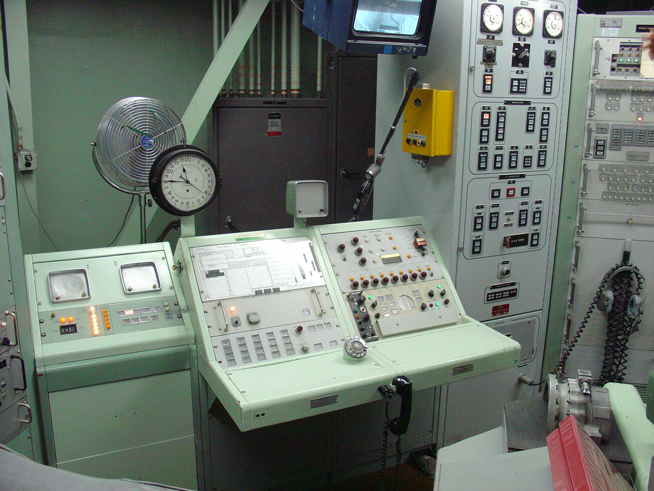 The Titan Missile Museum is located in Pima County, Arizona.